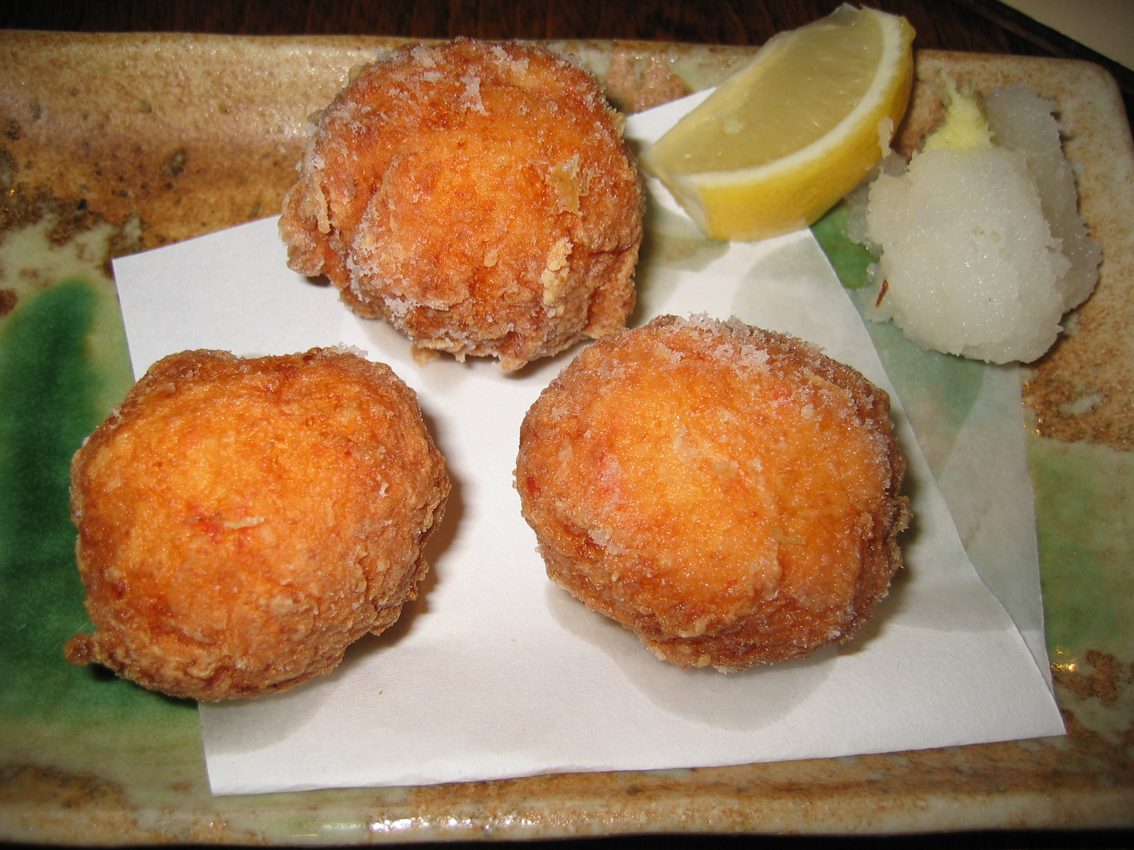 Fried shinjo of shrimp